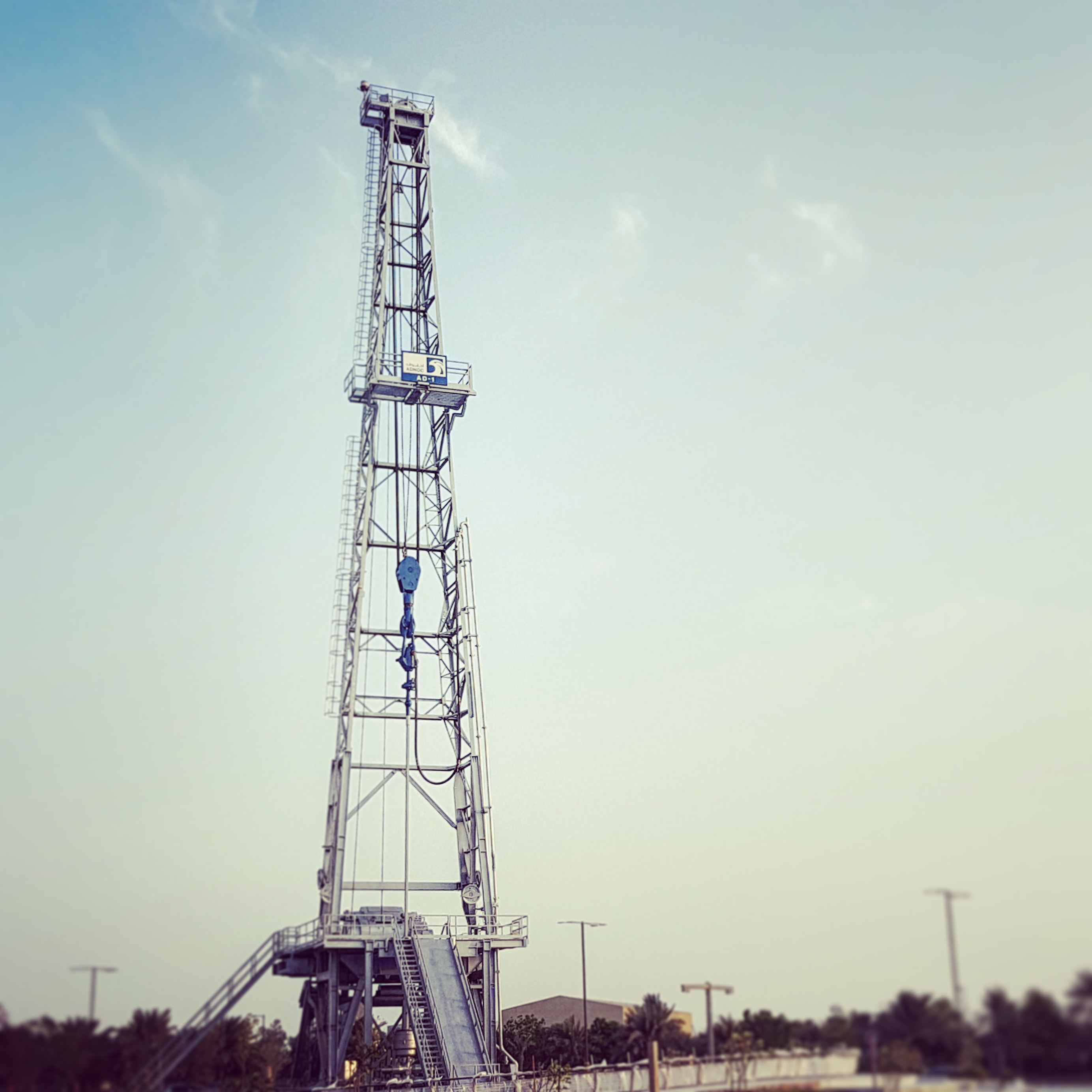 Abu Dhabi's first oil rig AD-1 now stands outside the ADNOC headquarters in Abu Dhabi city.